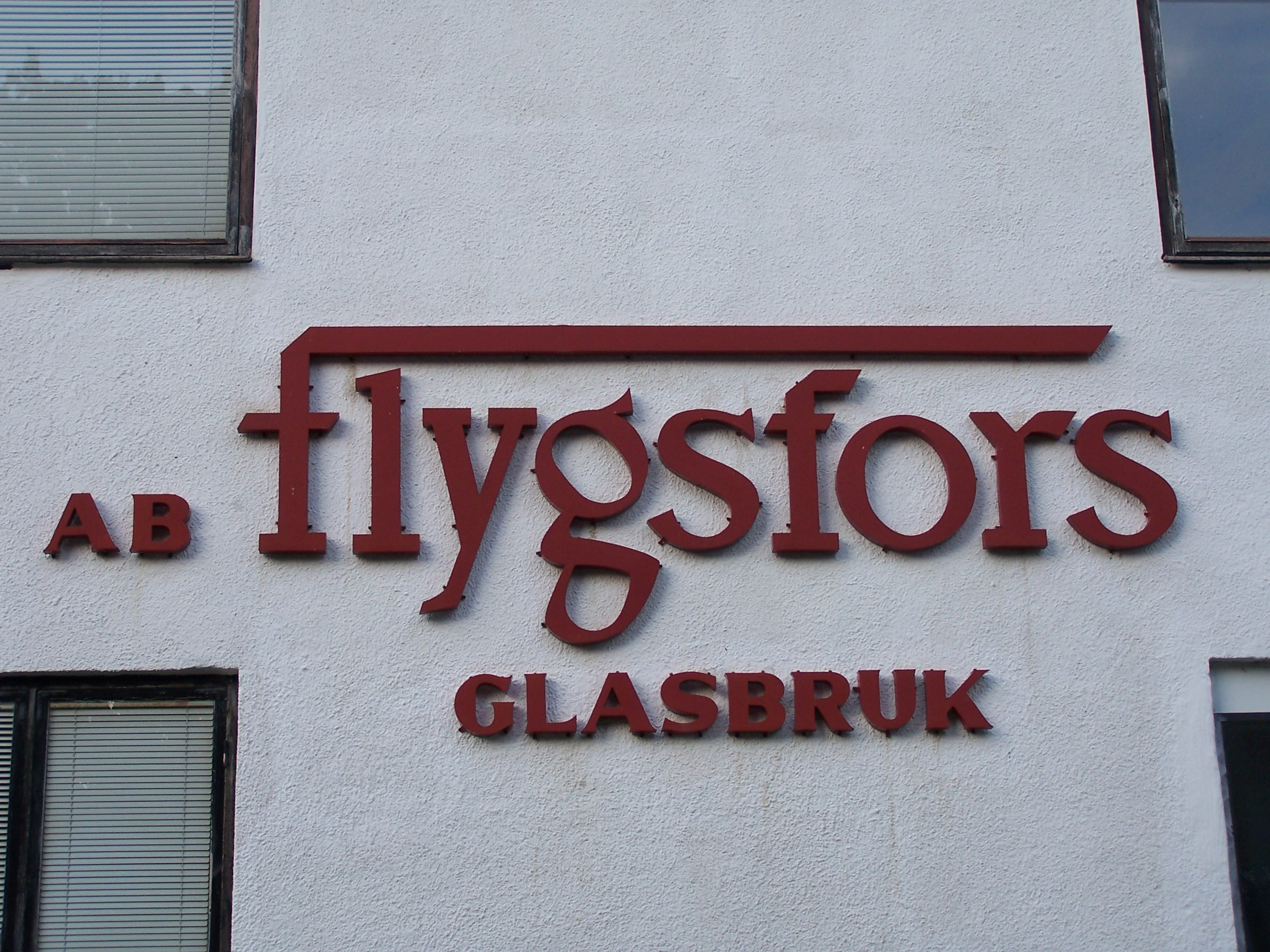 Flygsfors glasbruk, in Flygsgors, Sweden was founded in 1888 first producing window glass, then in 1932, began to develop lighting glass fixtures. In 1952, Flygsfors introduced multi colored artistically designed glass, which became world famous in the manuel glass industry. In 1979, Orrefors closed the factory. At one time there were 240 employed here.